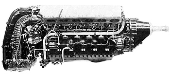 Rolls-Royce R aero engine, original image circa 1930.